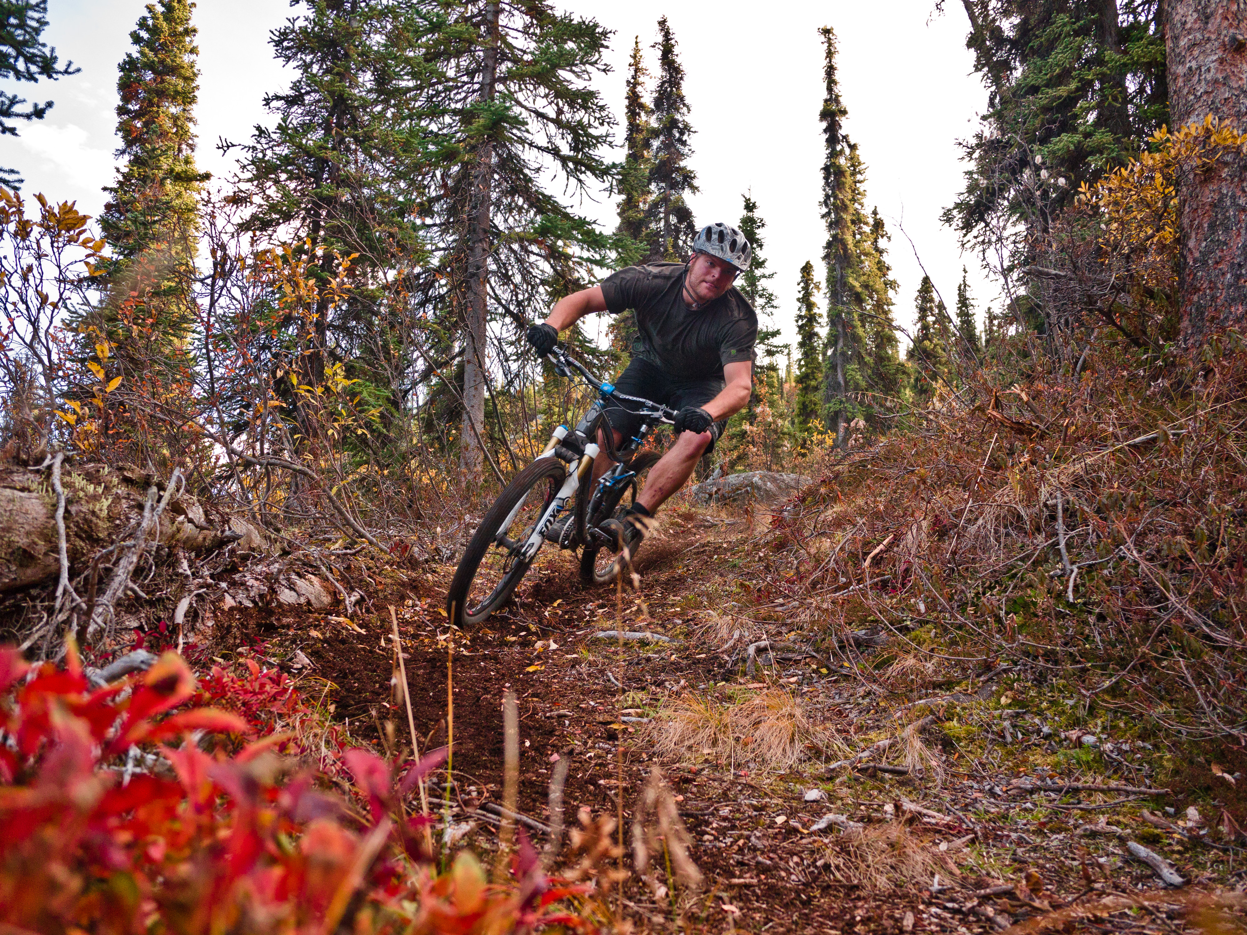 Rory on Goat Trail